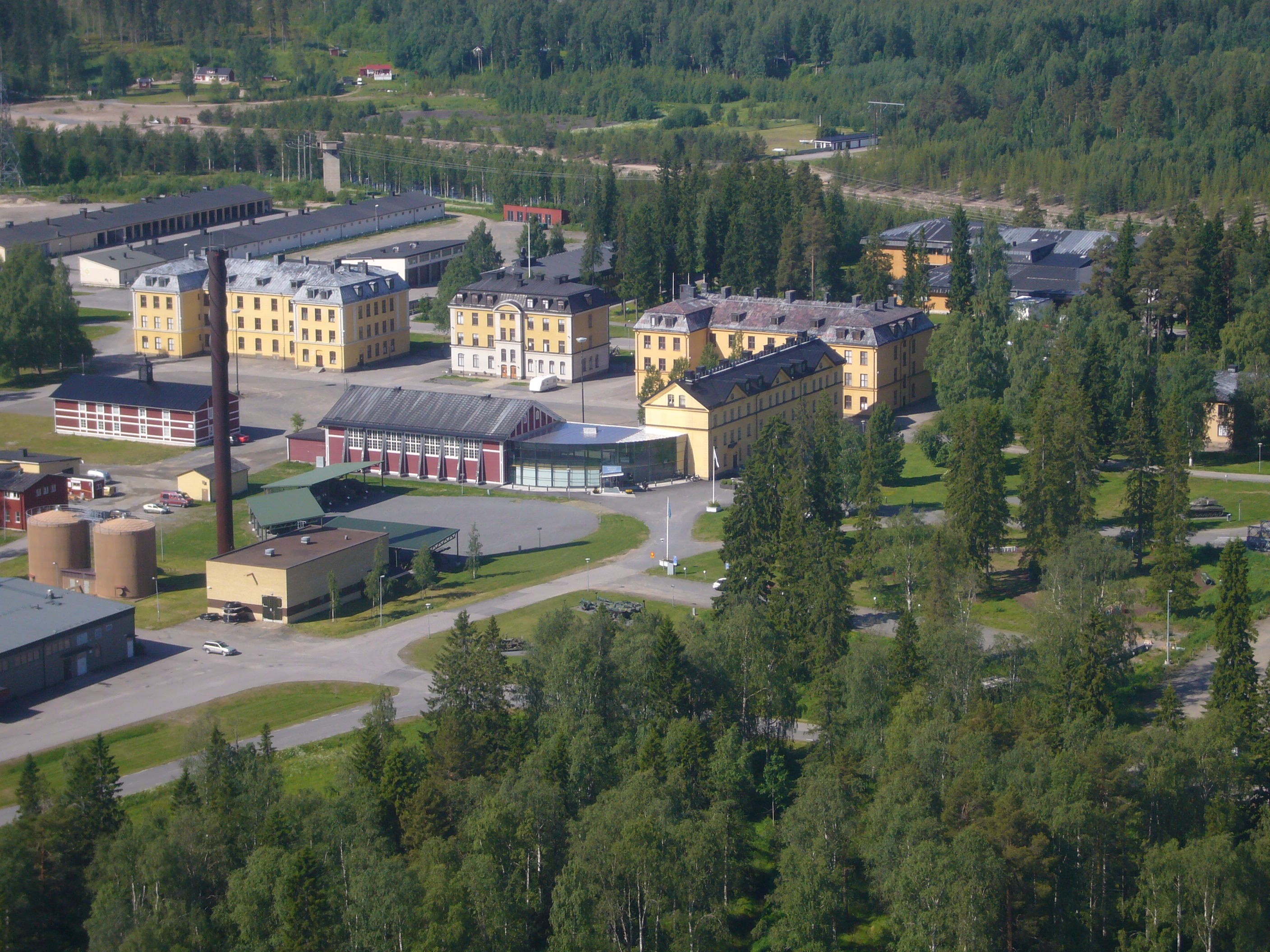 Overwiev: The Defence Museum of Boden